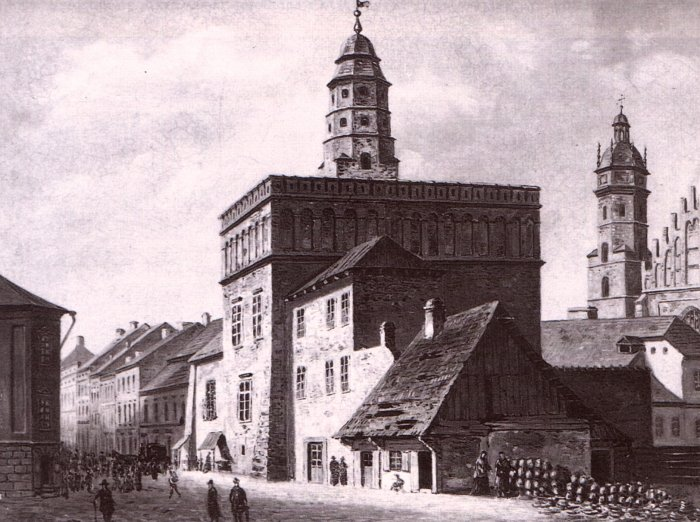 Kazimierz Town Hall in Kraków before the reconstruction from years 1875 - 76. Non-existent houses are remains of the draper's hall. Image of Aleksander Gryglewski from before 1876